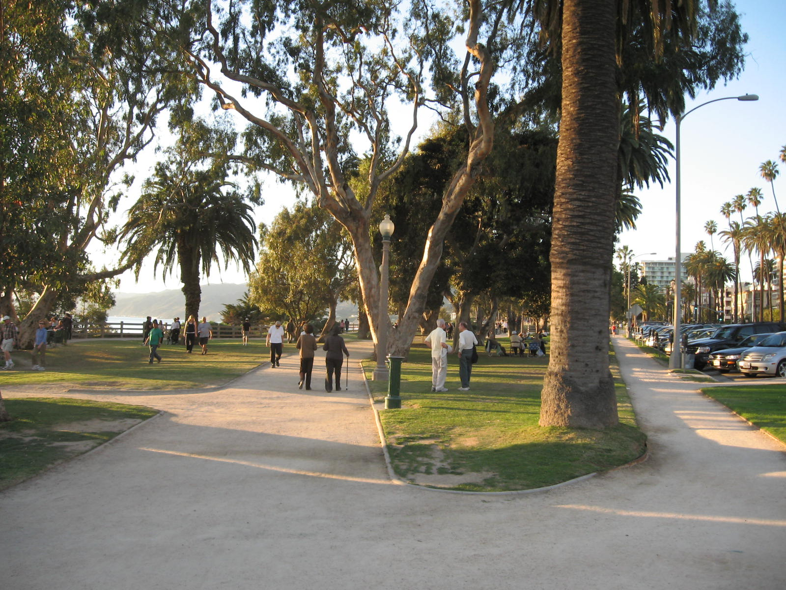 Palisades Park — in Santa Monica, California. With decomposed granite pathways.